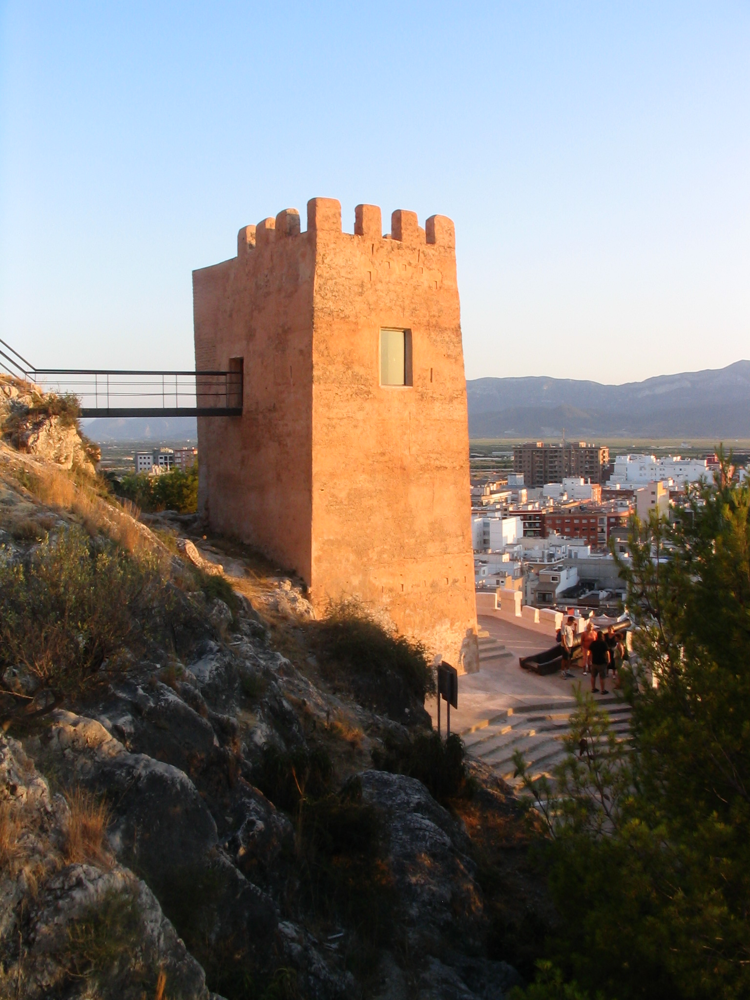 Tower of the Reina Mora